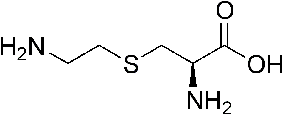 chemical structure of thialysine